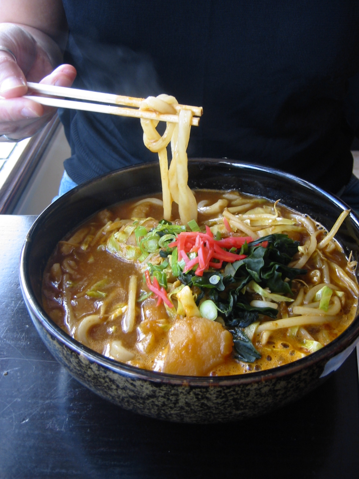 Jessica's lunch at E-Kagen, North Laine, Brighton.Curry Udon